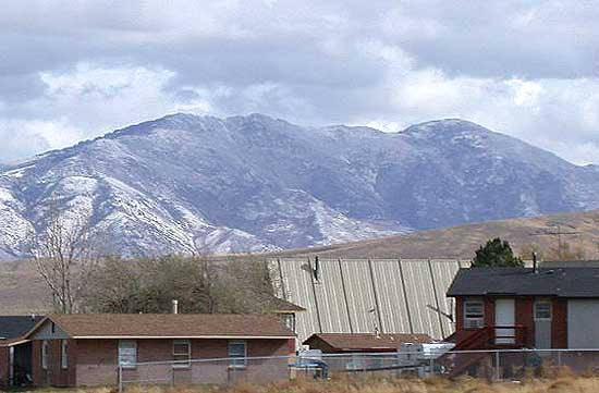 Houses in Fort Hall, Idaho on the Fort Hall Indian Reservation. Mount Putnam at the northern end of the Portneuf Range is shown in the background. (taken Oct. 18, 2004)